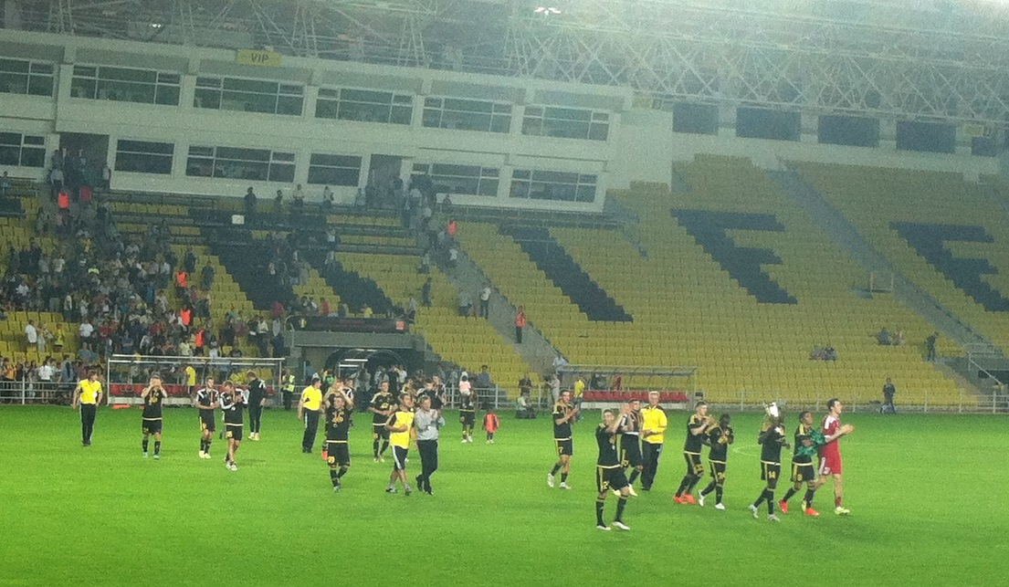 FC Sheriff Supercup 2015 (crop)